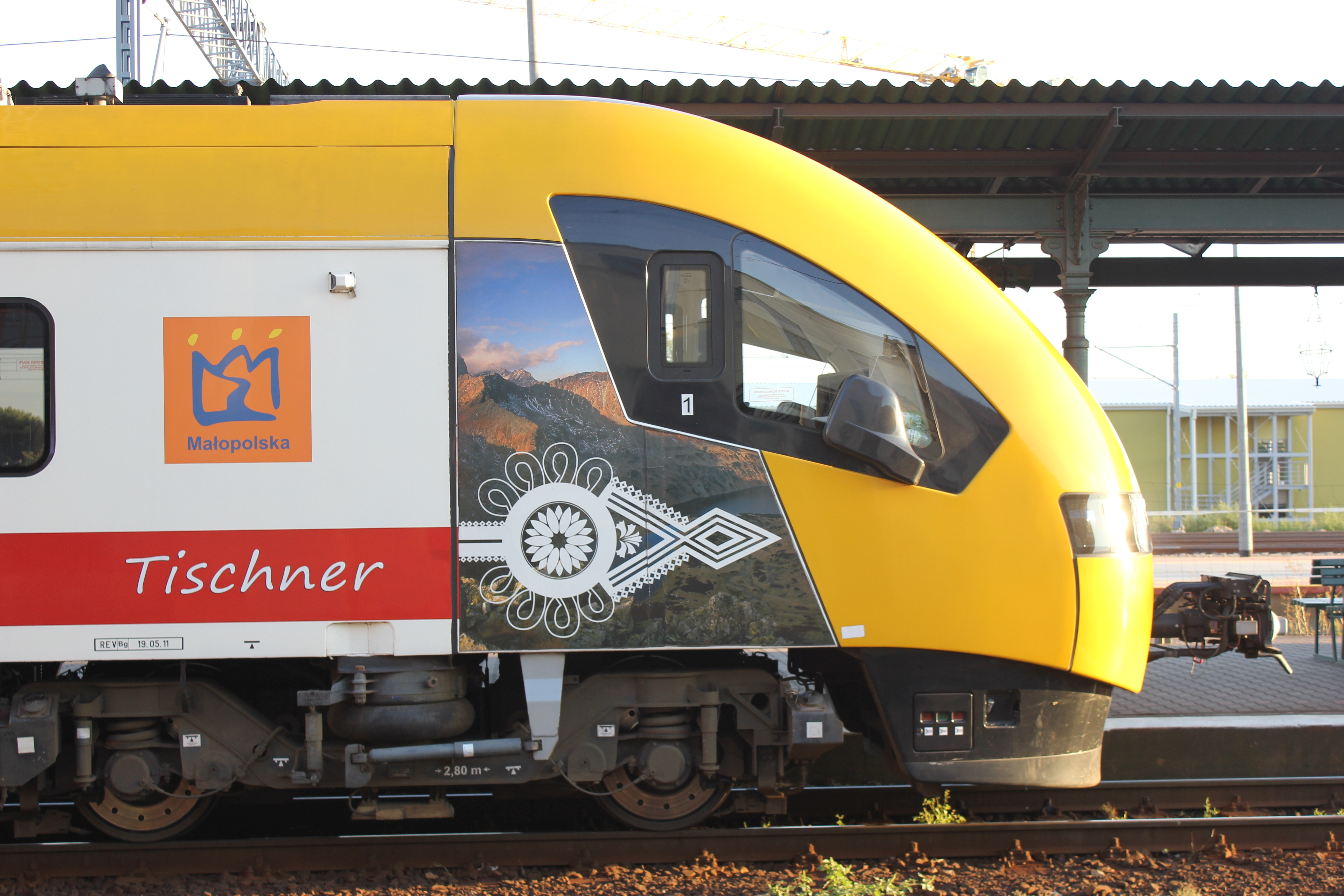 Tarnów - EN77-005 "Tischner" electric multiple unit